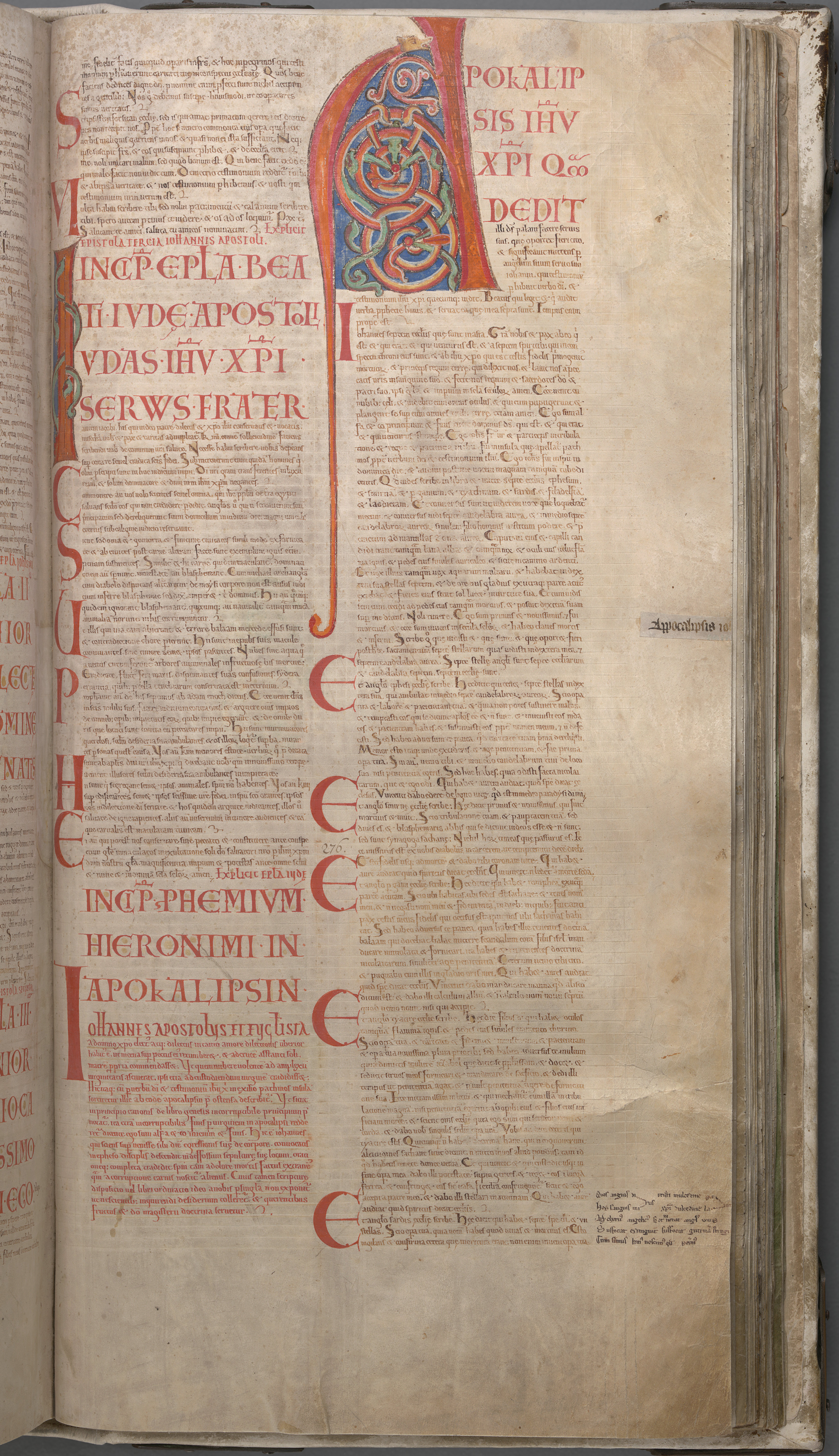 Giant Book) is the largest extant medieval manuscript in the world. It is also known as the Devil's Bible because of a large illustration of the devil on the inside and the legend surrounding its creation. It is thought to have been created in the early 13th century in the Benedictine monastery of Podlažice in Bohemia (modern Czech Republic). It contains the Vulgate Bible as well as many historical documents all written in Latin. During the Thirty Years' War in 1648, the entire collection was taken by the Swedish army as plunder, and now it is preserved at the National Library of Sweden in Stockholm, though it is not normally on display.